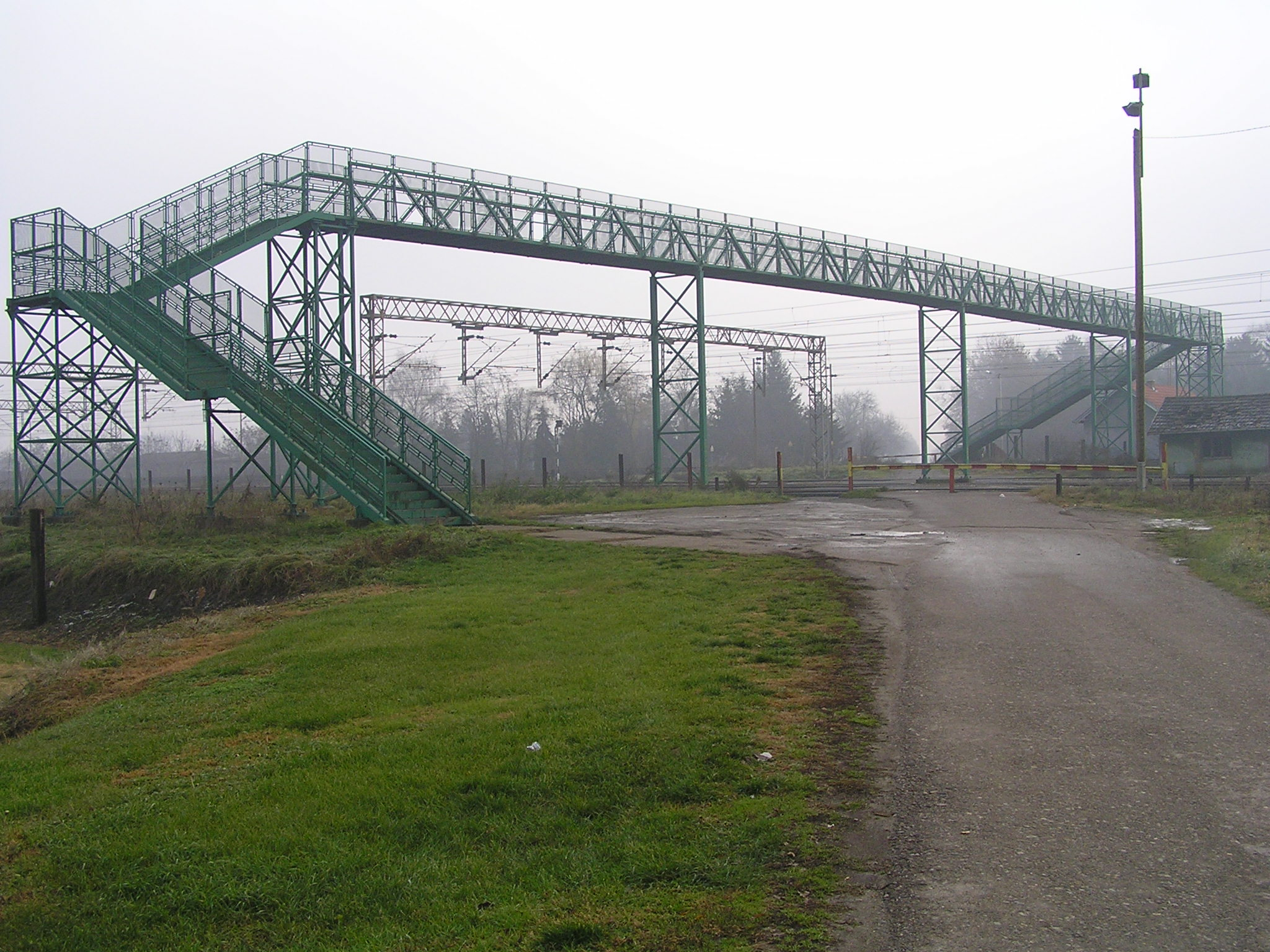 Passanger walk over the most important Croatian railway line Paneuropean Koridor 10, near Vinkovci